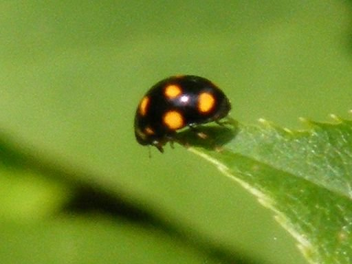 Brachiacantha ursina Anglais : Orange-spotted ladybug